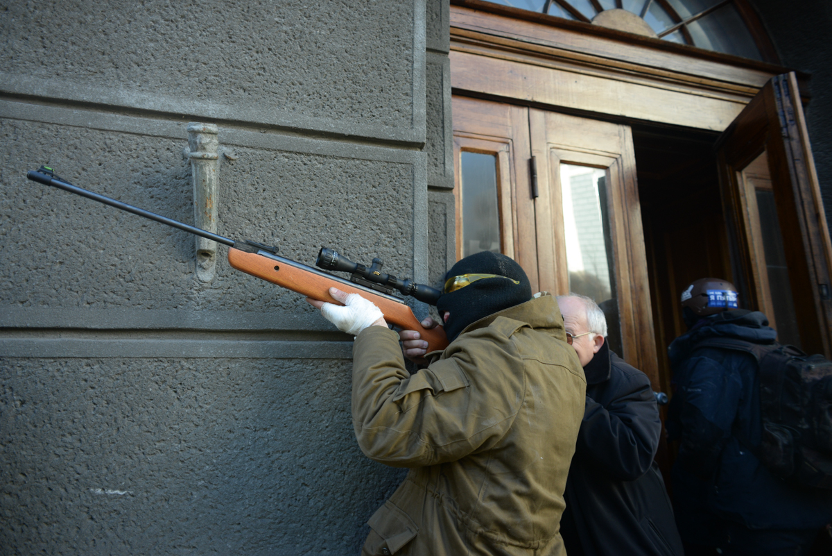 An unindentified protester armed with a break barrel air rifle (most likely a Umarex Perfecta 55). Clashes in Kyiv, Ukraine. Events of February 18, 2014